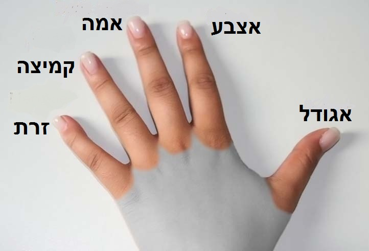 The Hebrew names of the fingers